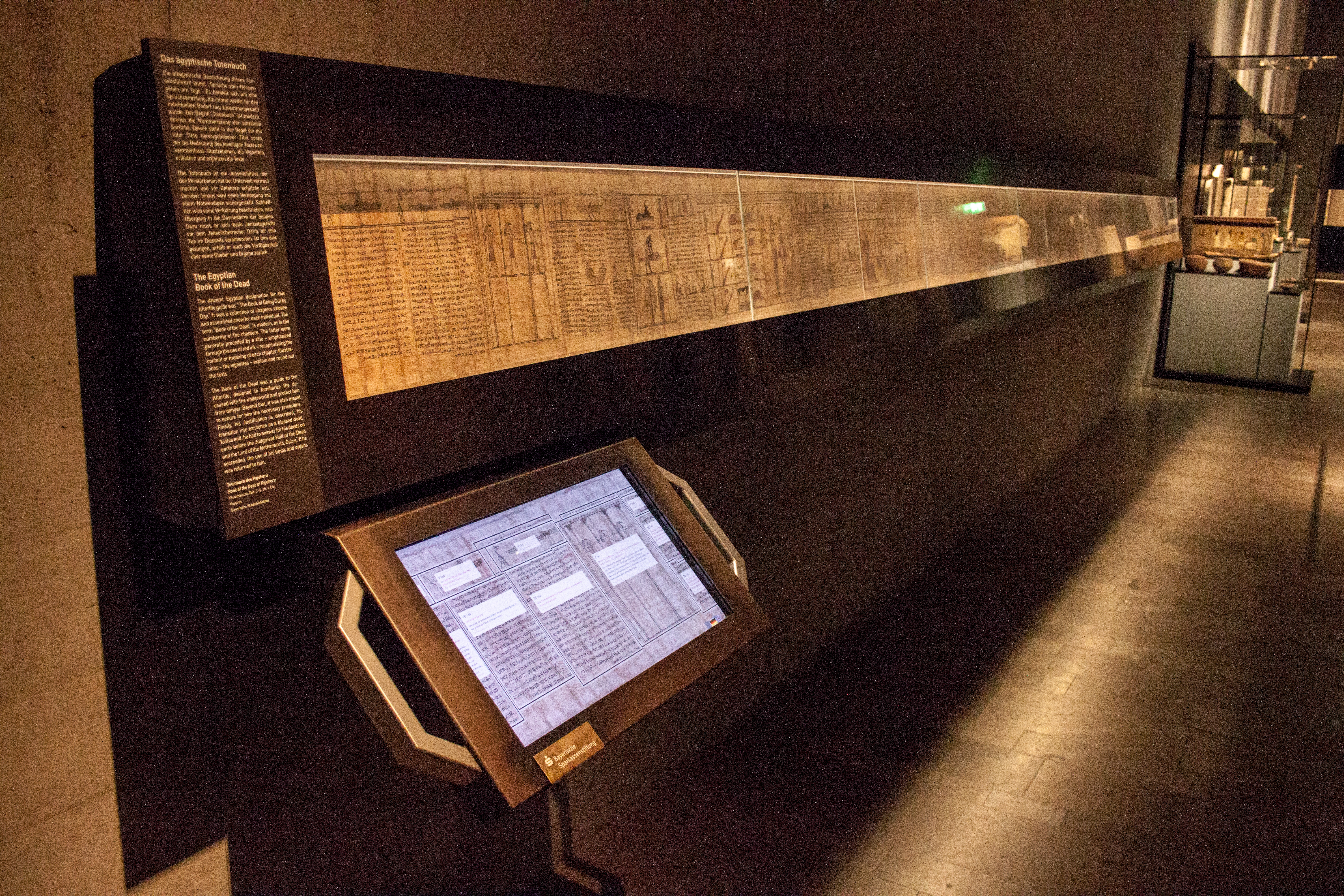 Book of the Deadlabel QS:Len,"Book of the Dead" label QS:Lde,"Das ägyptische Totenbuch"